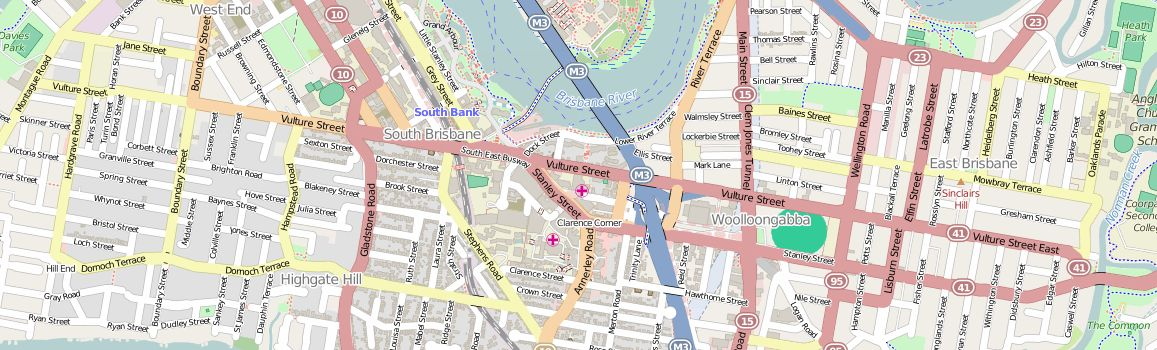 Open Street Map - Vulture Street, 2015